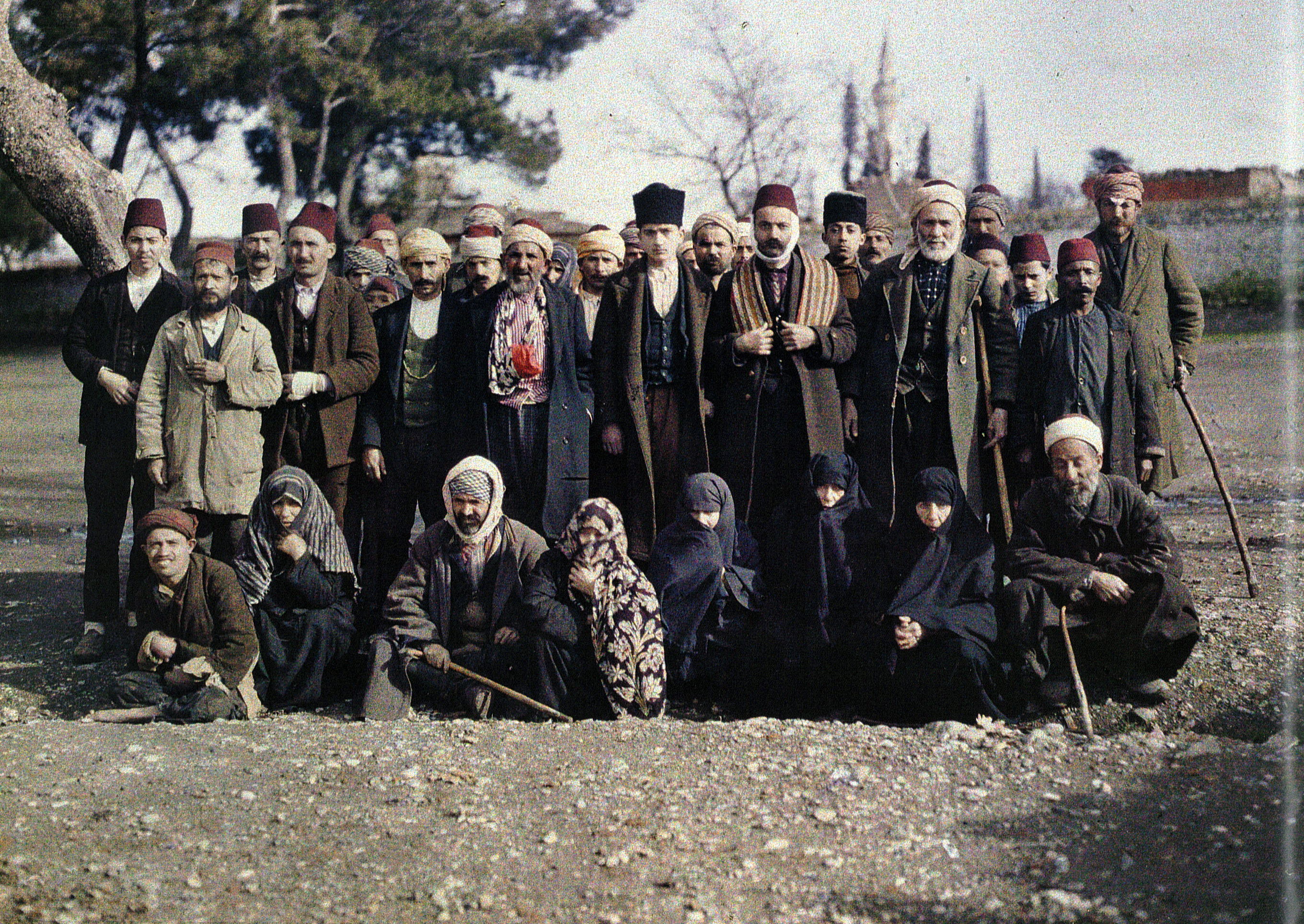 Manisa, 1923 (Frédéric Gadmer, Albert Kahn Collection). As the Turkish Nationalist Struggle approached its completion with the Great Attack (Büyük Taarruz) of 26-30 August 1922, the Greek army began to retreat from the occupied lands in Western Anatolia. However, as they withdrew, the villages and towns of the Western Anatolia were set on fire, leading many civilian casualties. This photograph was taken on January, 12, 1923, in Manisa, a couple of months after the Greek retreat. According to the report of an American diplomat in Manisa, 10,300 homes and fifteen mosques were destroyed in the city. The man sitting on the far left floor of the front row is reported to have lost his mind after having been trapped in a burning building.